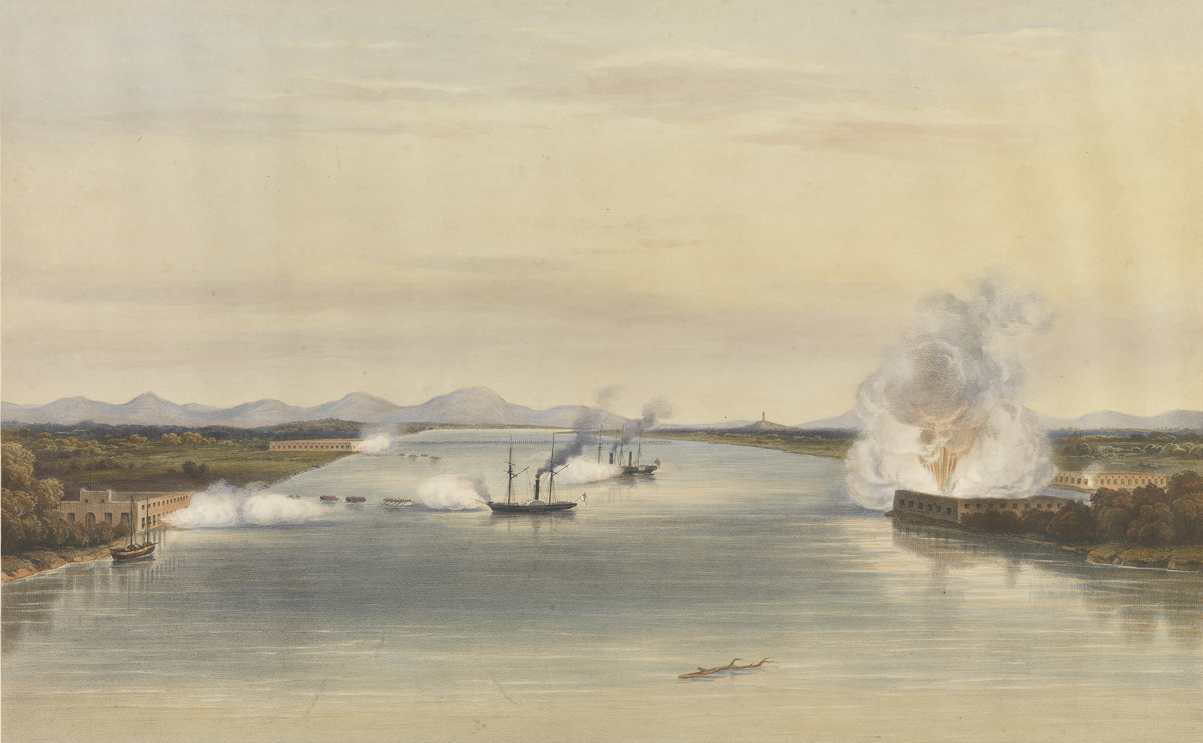 British troops attacking the forts of Wookongtap and Whampoa Creek on 3 April 1847. The Whampoa Pagoda is shown in the distance.